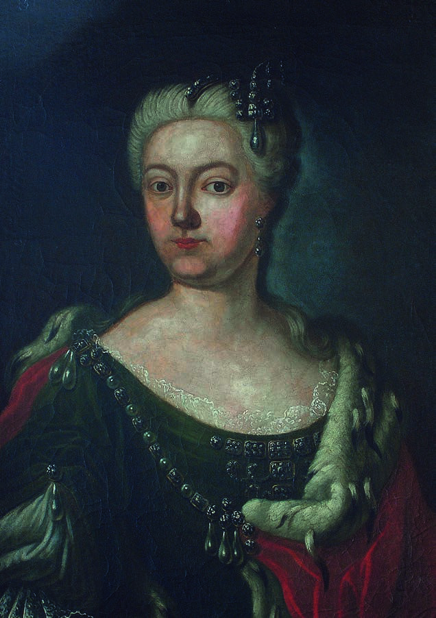 Portrait of Esther Maria von Witzleben (1665-1725), wife of John Charles, Count Palatine of Gelnhausen